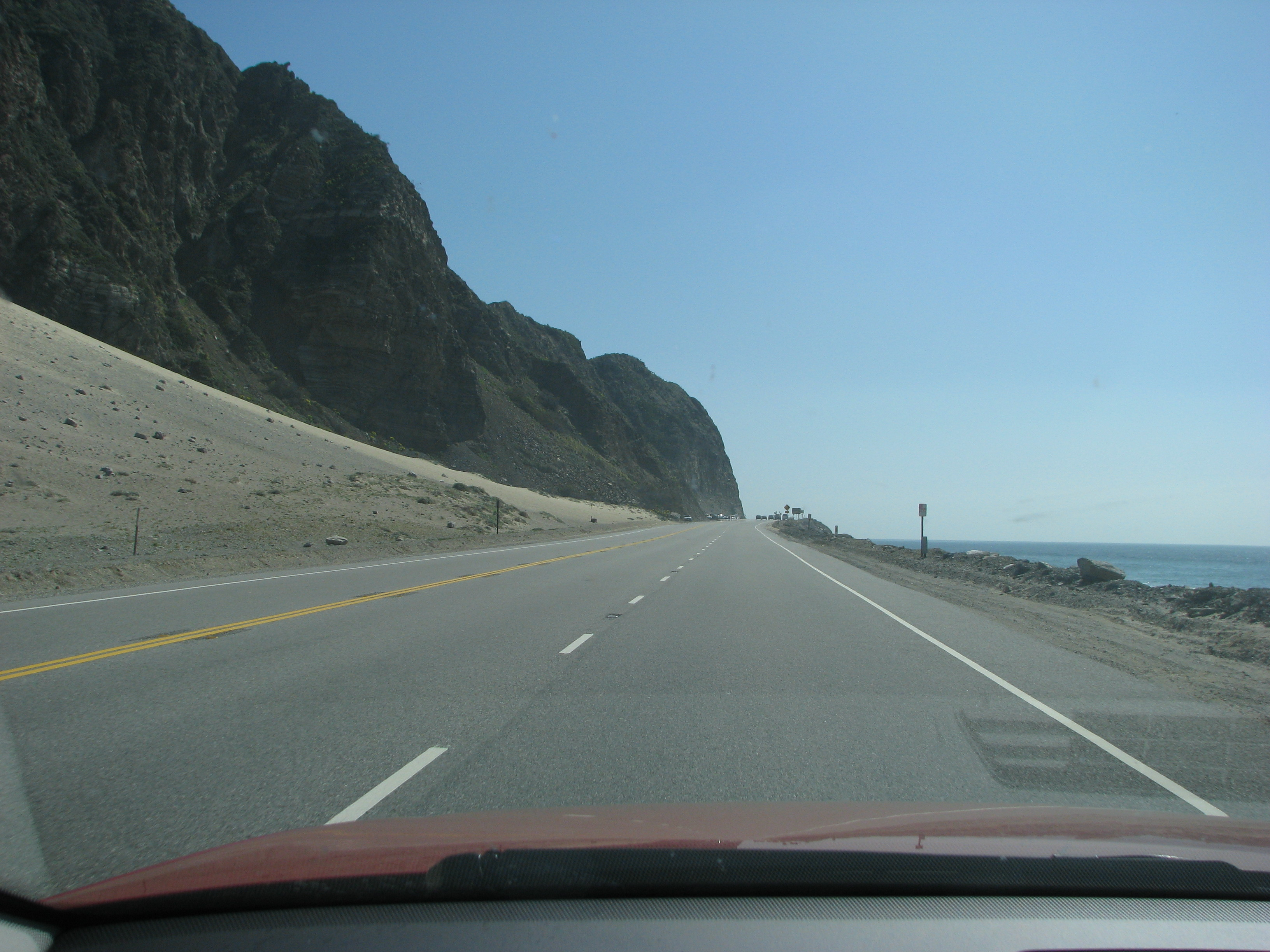 Southbound California Highway 1 at Point Mugu State Park — between Oxnard and Malibu, Southern California. The park's sand dunes, where the Santa Monica Mountains meet the coast.